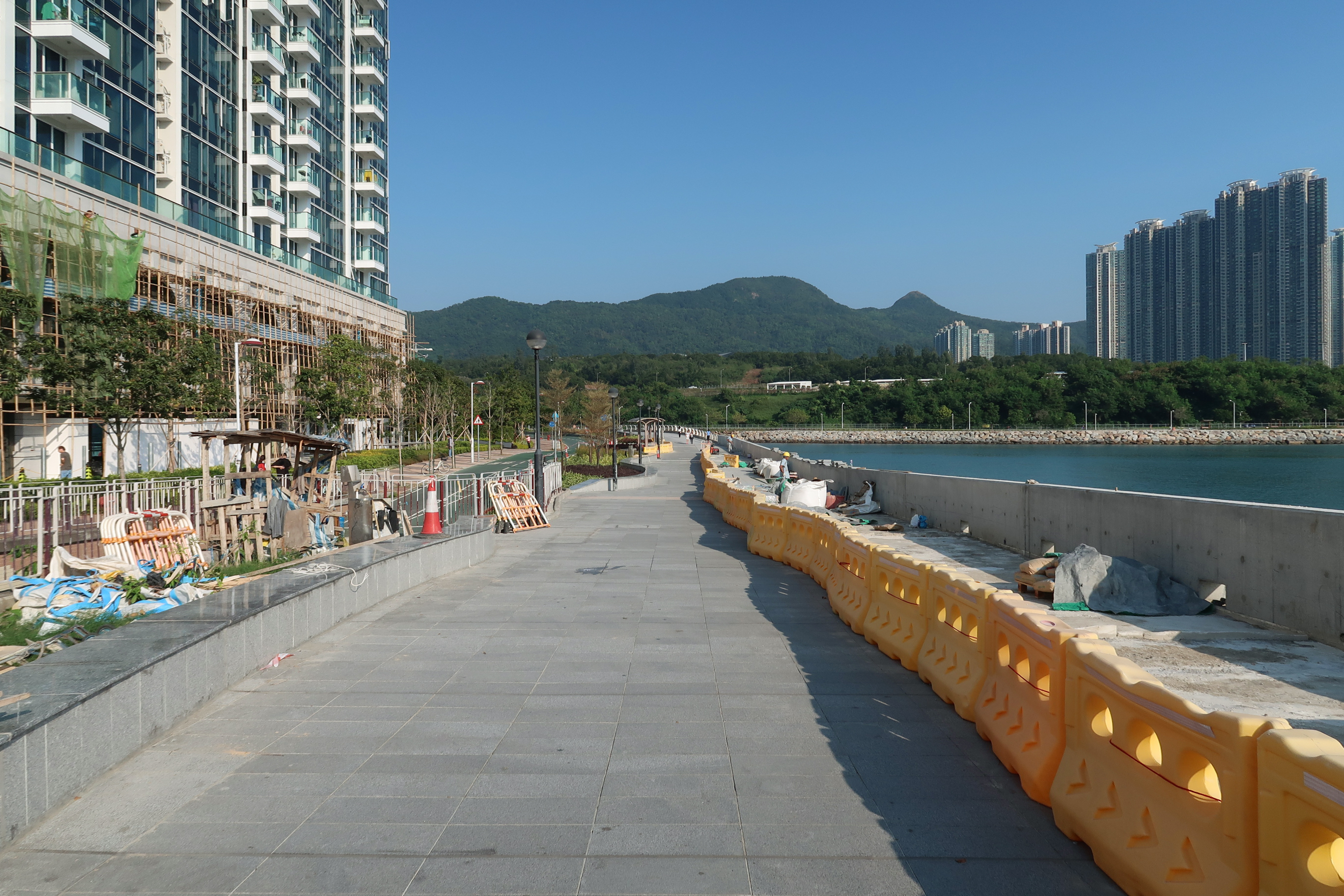 Tseung Kwan O Waterfront Park rebuild